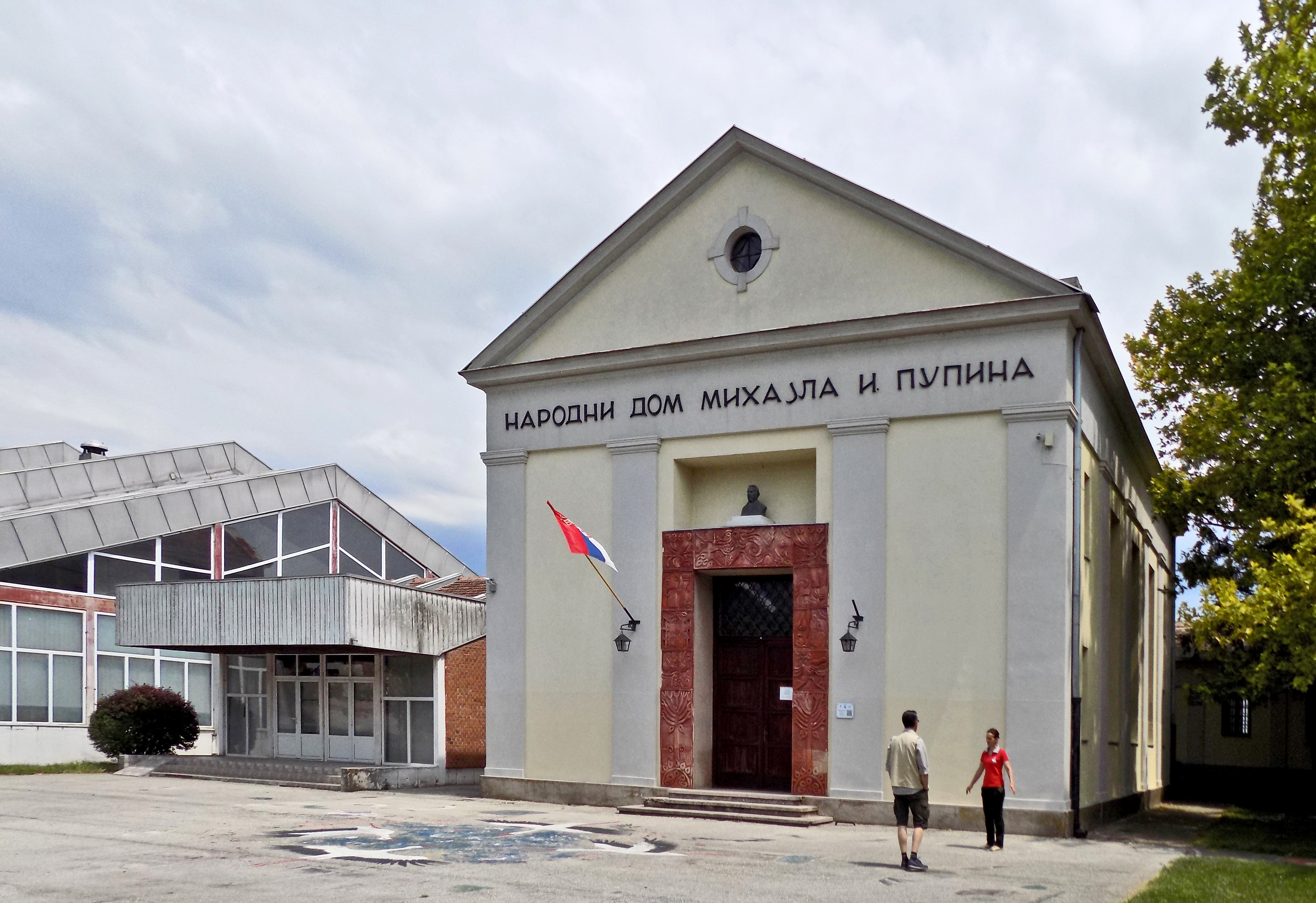 National House of Mihajlo I. Pupin, Pupin's endowment in his native village of Idvor. In 1979, a new building of the House of Culture was built next to the Endowment, where today a part of the museum exhibit is located